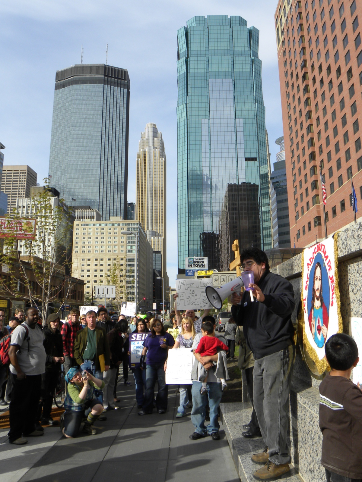 Minneapolis, Minnesota A coalition of community organizations held a protest against the new Arizona SB 1070 law which gives law enforcement more power to demand proof of citizenship and detain those they suspect of being illegal aliens. The protest was at the downtown Minneapolis Hilton where a fundraising was being held for the Minnesota Family Council attended by Republican Governor Tim Pawlenty and Fox News personality Mike Huckabee. The protest was supported by groups such as SEIU local 26 and the Minnesota Immigrant Rights Action Coalition. SB 1070 defines crimes involving hiring, transporting, harboring or concealing illegal aliens. The law requires Arizona officials and agencies to determine if "reasonable suspicion exists that the person is an alien who is unlawfully present in the U.S." and requires law enforcement officers "to arrest a person if the officer has probable cause to believe that the person has committed any public offense that makes the person removable from the U.S." In effect, the law mandates that Arizona officials and law enforcement check for proof of citizenship without defining what "reasonable suspicion" or "probable cause" should be used to determine if such a check is required. Critics say this will inevitably lead to racial profiling.